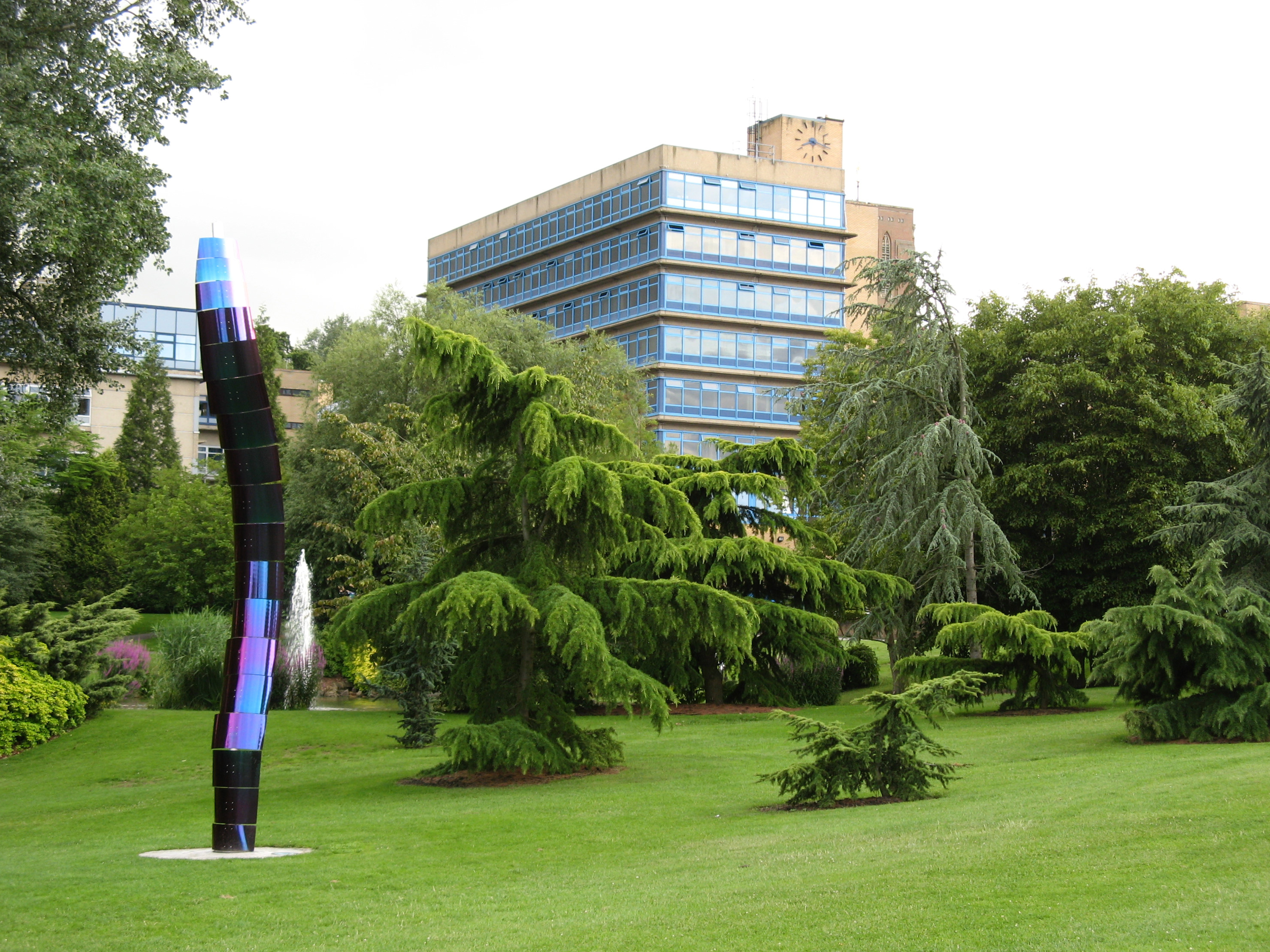 Spine 3, a sculpture by Diane Maclean, on the University of Surrey campus. Spine is a coloured stainless steel tube, using an oxide layer causing colour changes as the sun angle varies.